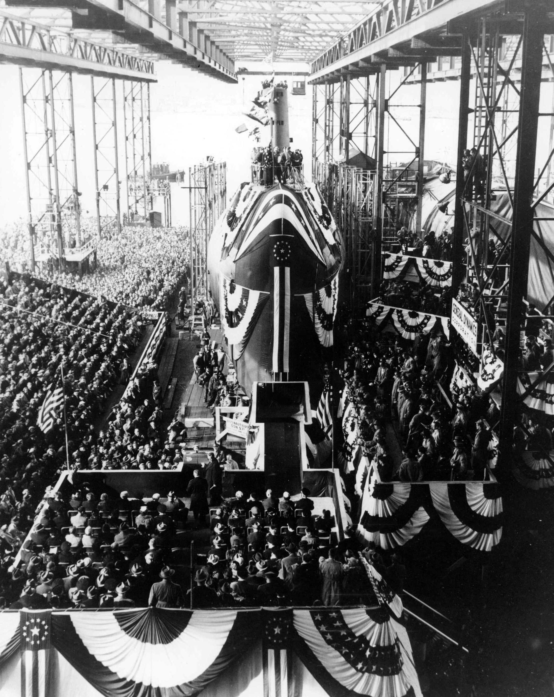 WASHINGTON (Jan. 20, 2012) In this file photo taken Jan. 21, 1954, spectators gather around the nuclear-powered submarine USS Nautilus (SSN 571) during a christening ceremony. (U.S. Navy photo/Released)